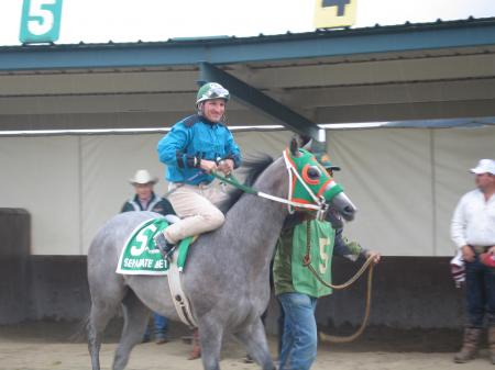 G. R. Carter aboard Separate Bet